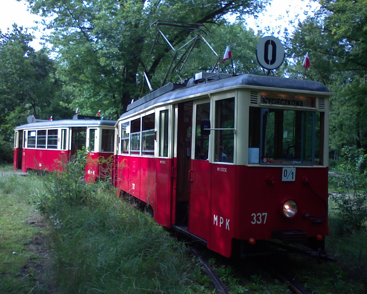 The "0" line tram (#337) in Łódź, Poland, standing at the Zdrowie stop.